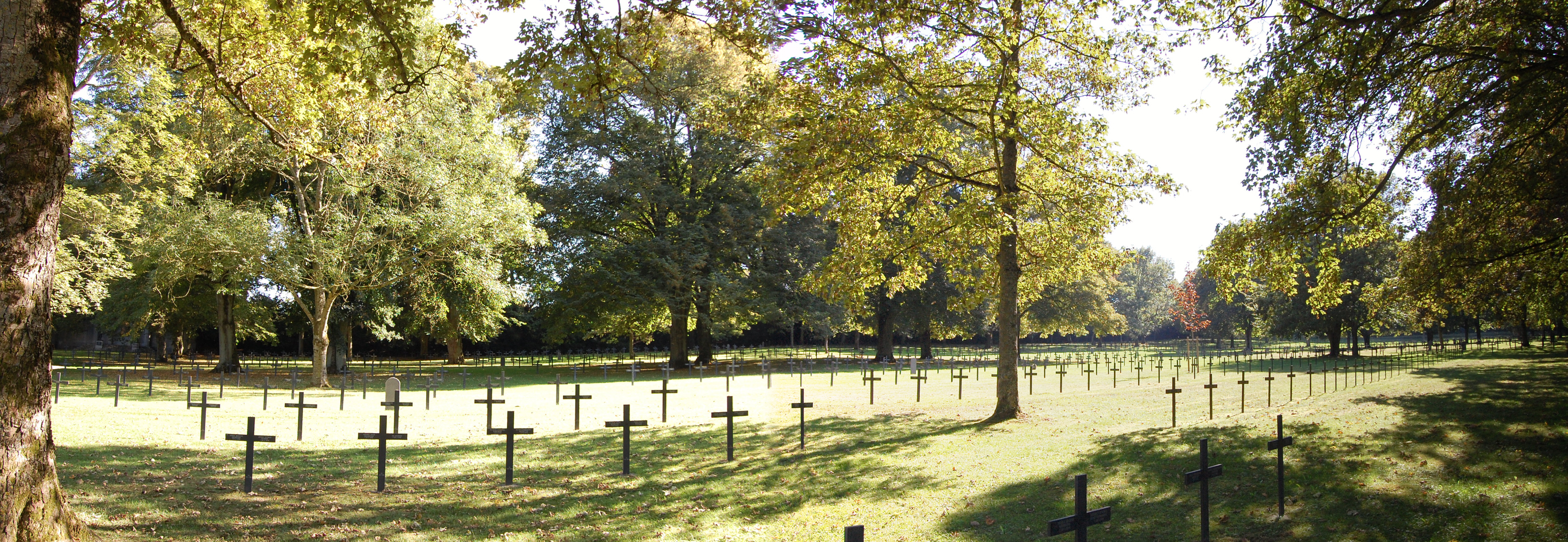 German cemetary of World War I. St. Quentin. Metal crosses for Christian soldiers, Stone pillars for Jewish soldiers